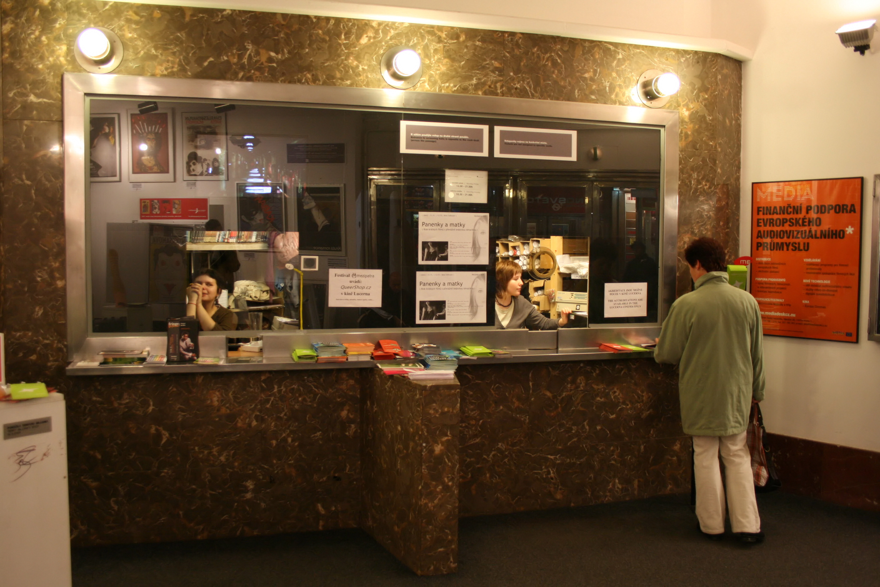 Prague cinema Světozor. Česky: Pokladny pražského kina Světozor.